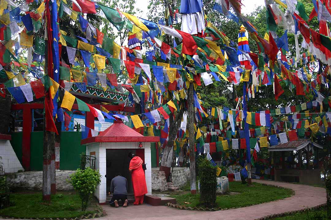 Flags containing Buddhism texts to ward off evil spirits, around a temple in Darjeeling, West Bengal, India